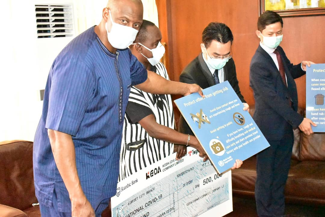 Herbert Mensah and other private business people presents cheque donation to a COVID-19 fund at the presidency in Ghana to support government effort to stop the spread of the virus.